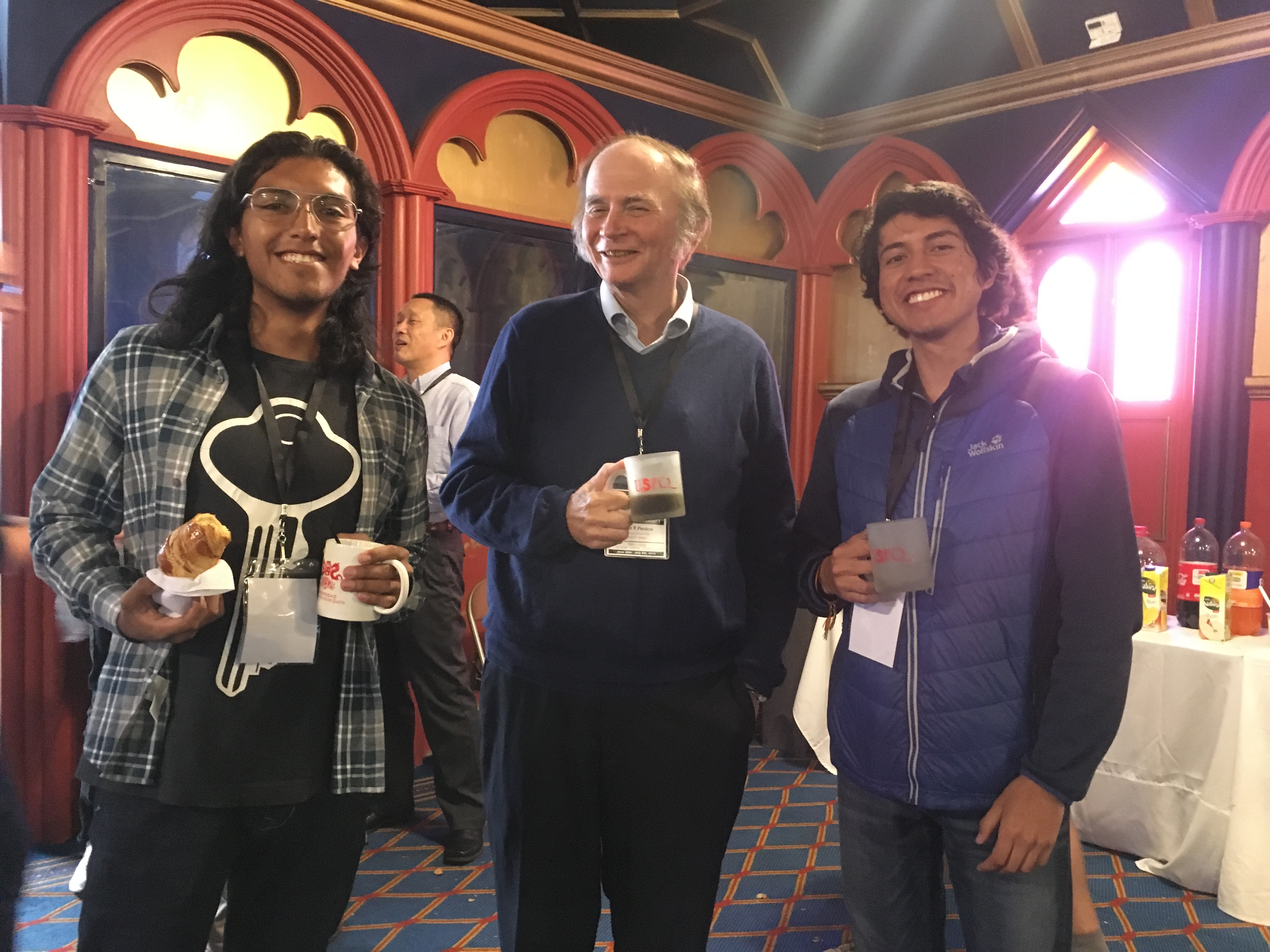 John Perdew with undergraduate students, Joshua Salazar at the left and Jorge Vega at the right, on a Coffee Break in the Scientific Congress Current Topics on Theoretical Chemistry at San Francisco de Quito University 2019